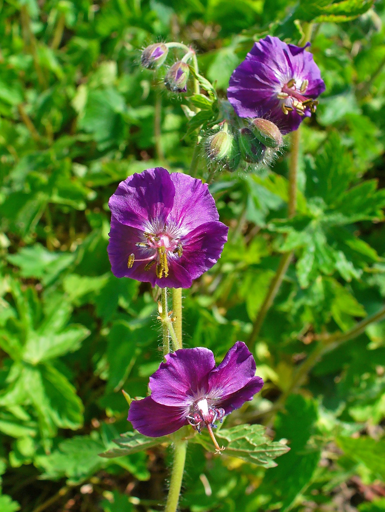 Geranium phaeum, Geraniaceae, Dusky Cranesbill, Mourning Widow, Black Widow, flowers; Botanical Garden KIT, Karlsruhe, Germany.